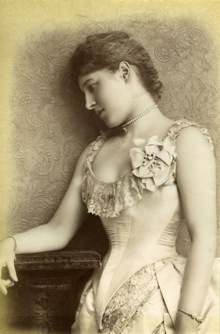 Description: Actress and socialite Lillie Langtry photographed by William Downey (1829-1915). Date: August 1885 Our Catalogue Reference: COPY 1/373/215 This image is from the collections of The National Archives. Feel free to share it within the spirit of the Commons. For high quality reproductions of any item from our collection please contact our image library.